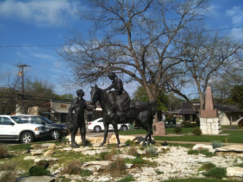 Photo of bronze sculpture on courthouse lawn, Glen Rose, Texas.